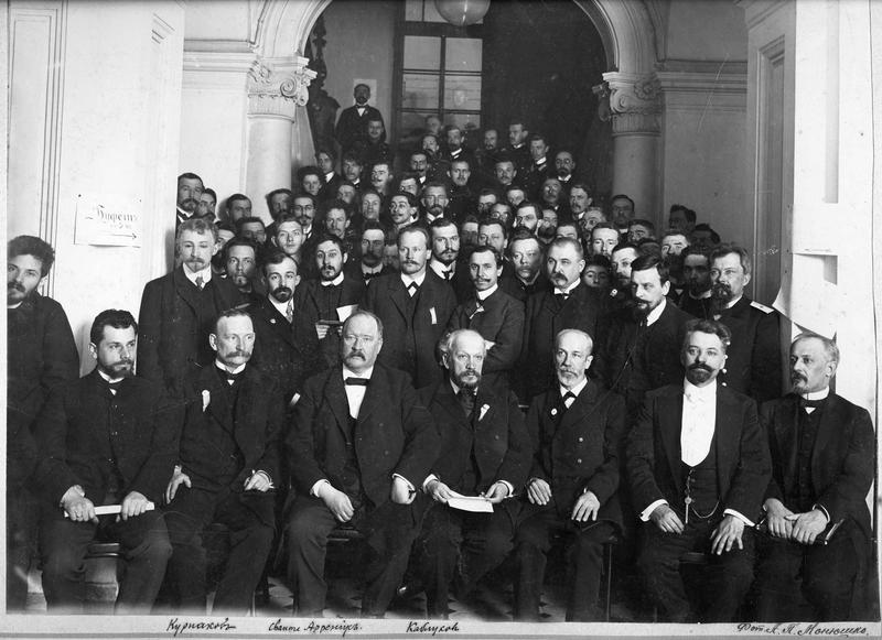 Some participants of the 1st Mendeleev Congress. Electrotechnical Institute. SPb. 1907 [1]